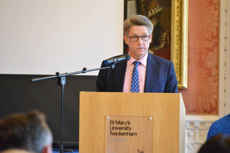 picture giving lecture